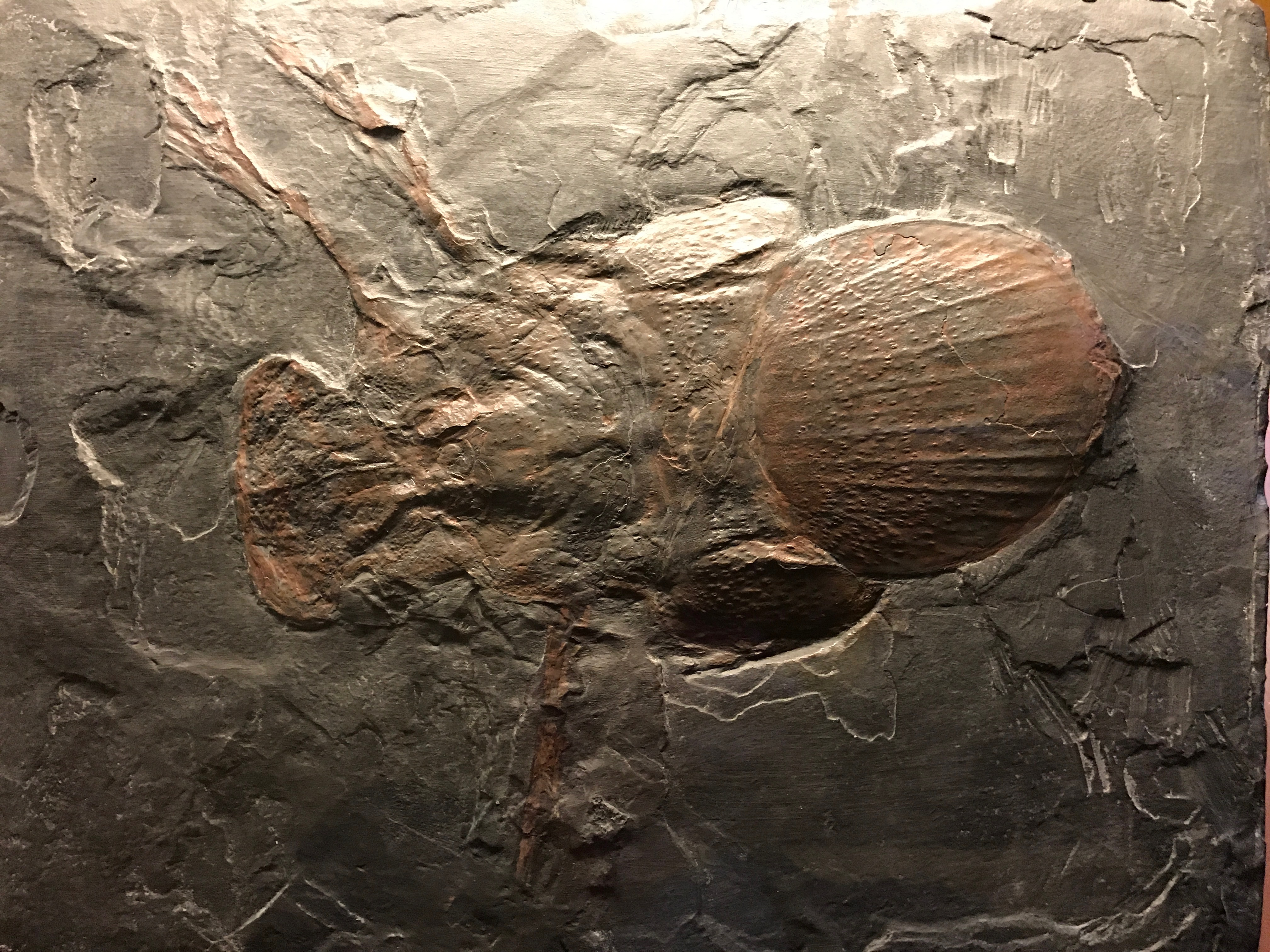 Cast of the Megarachne servinei holotype, exhibited at the Natural History Museum, Vienna. The holotype itself is kept at the Museum of Paleontology of the University of Córdoba, in Córdoba (Argentina).